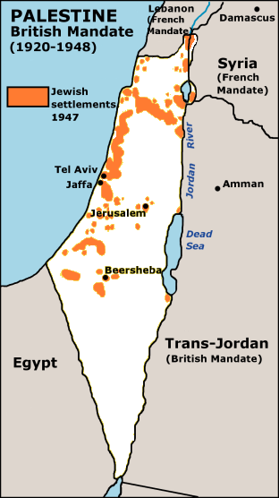 Copyright: GFDL derivative work created by the uploader based on a portion of the public domain work [1], modified to deal with POV issues. At [2] that site states that "Most of the maps scanned by the General Libraries and served from this web site are in the public domain. No permissions are needed to copy them. You may download them and use them as you wish. A few maps are copyrighted, and are clearly marked as such". There is no such mark with this map, so it is presumed to have been in the public domain before the derivative work was created. The uploader hereby releases the derivative work under the GFDL.